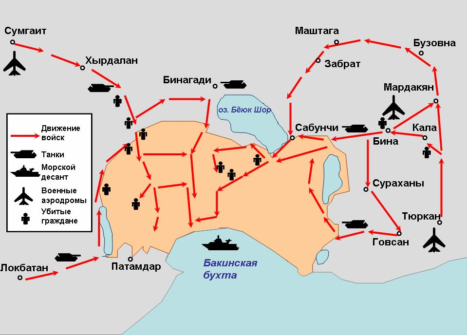 Invasion of Soviet Army in Baku (Russian). 20 January 1990